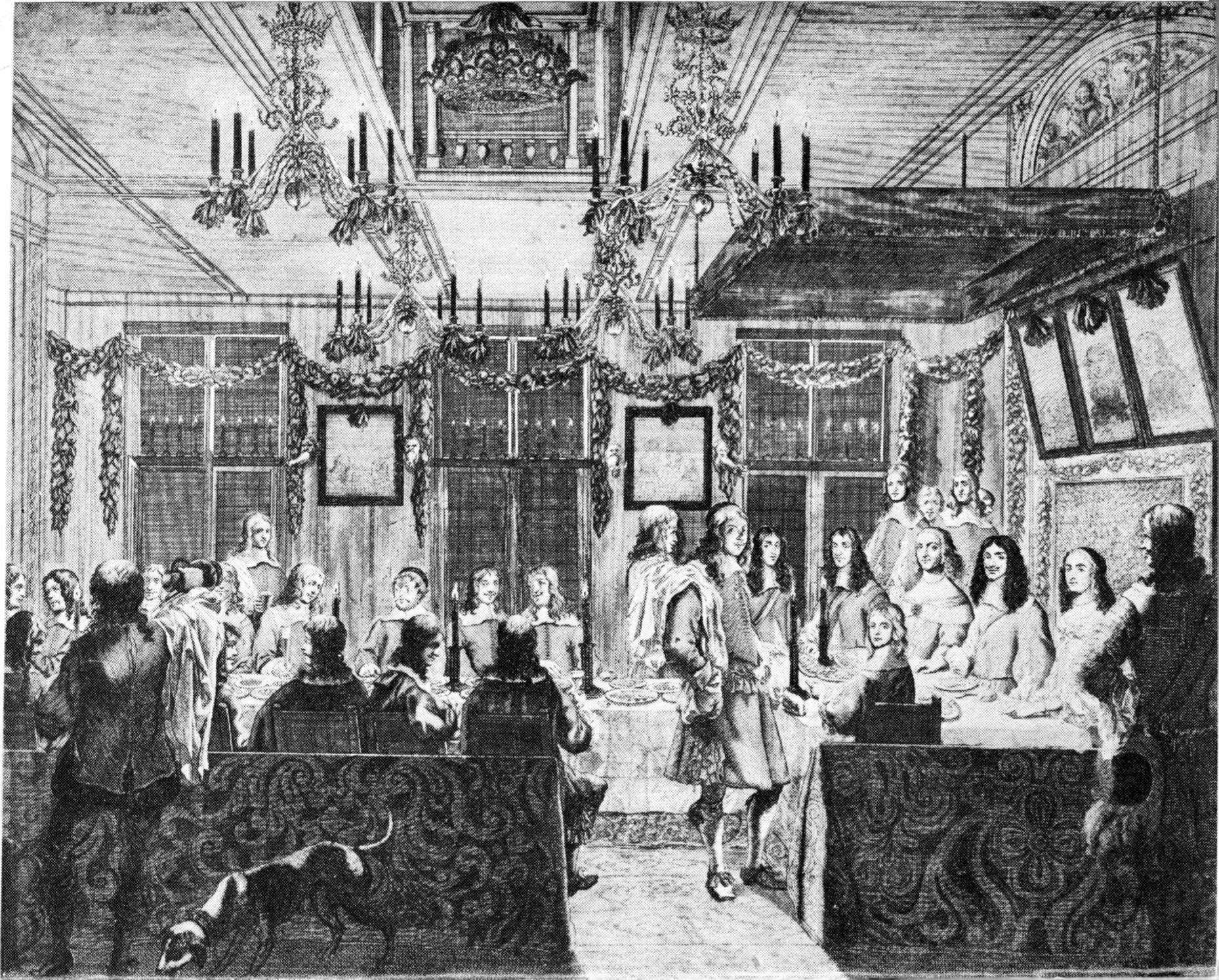 Banquet in honor of King Charles II at the Mauritshuis, The Hague, 19 February 1660.